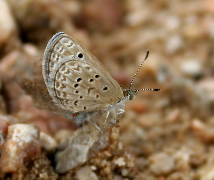 Lesser Grass Blue Zizina otis at Himayat Sagar, Hyderabad , India.